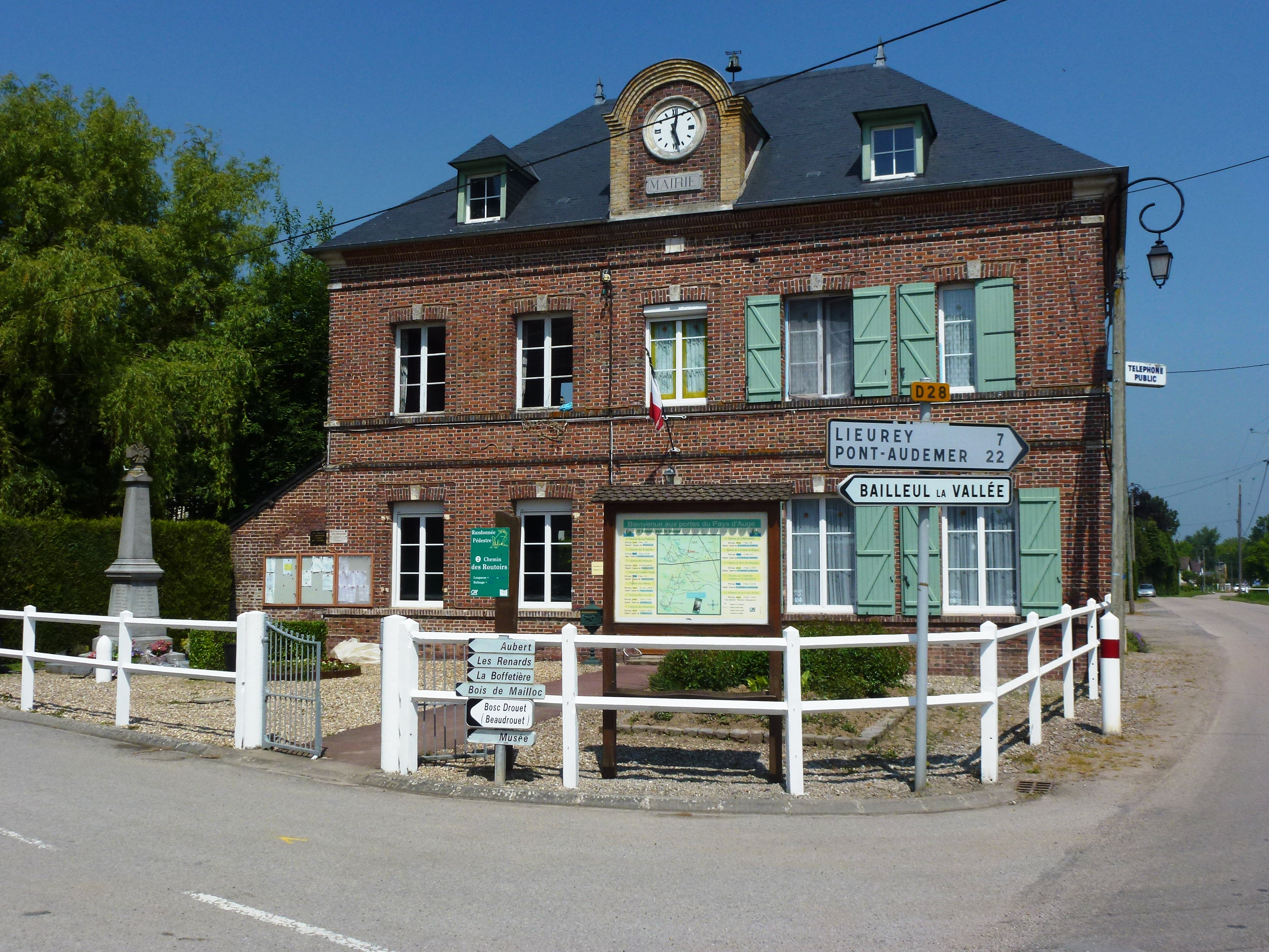 Saint-Aubin-de-Scellon (Eure-Fr) mairie